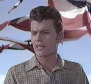 Patrick Wayne in McLintock! (cropped screenshot)